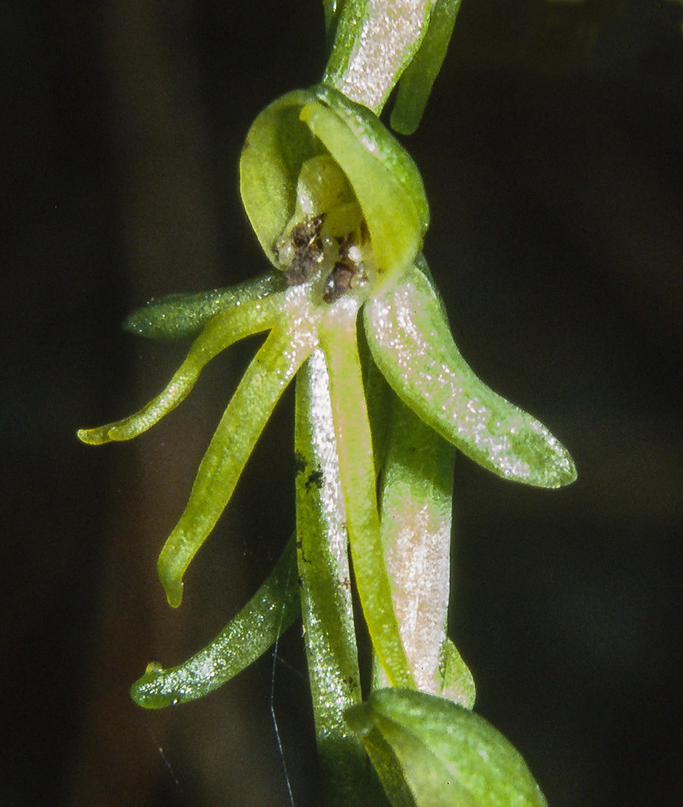 Habenaria tridactylites (Three-lobed Habenaria), ditch, near El Lagar, Tenerife; converted from a slide photograph taken on 6 January 1997